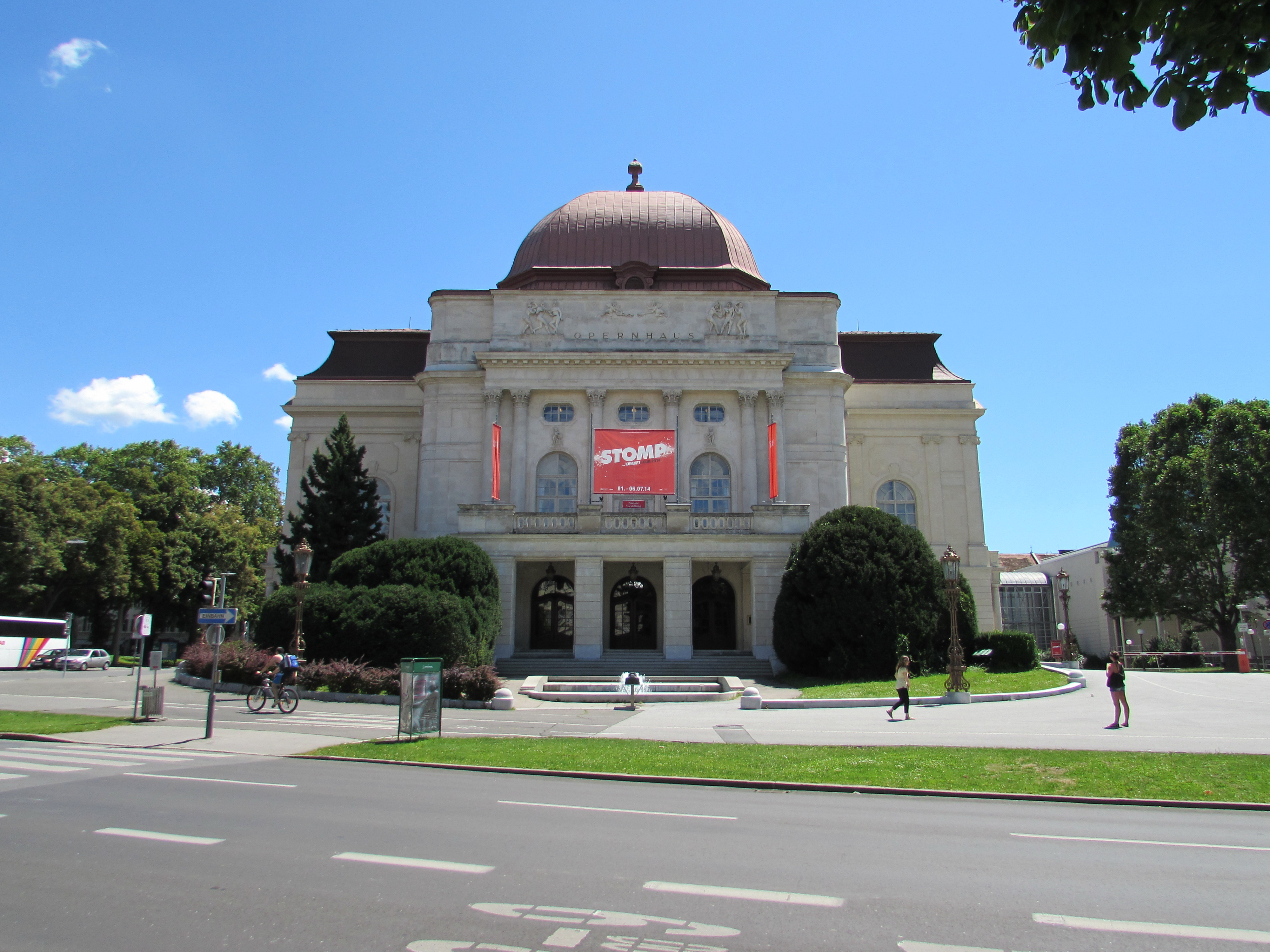 Graz Opera